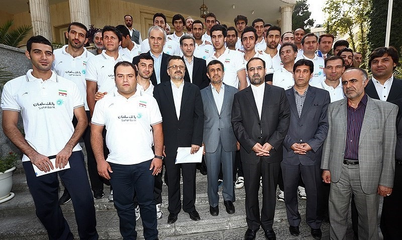 Iran national volleyball team players meeting with President Mahmoud Ahmadinejad in a cabinet meeting